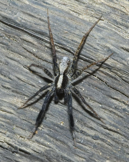 brush-legged wolf spider